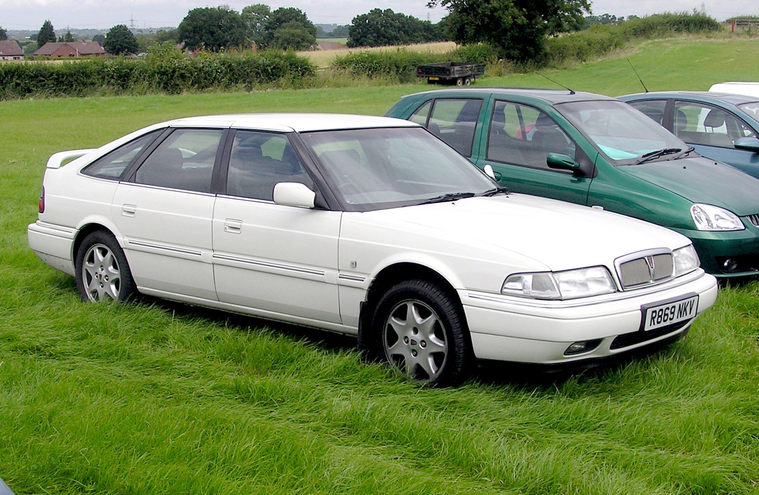 1998 Rover 800 at Coalpit Heath Car Show, near Bristol, England. Taken by Adrian Pingstone in July 2004 and released to the public domain.